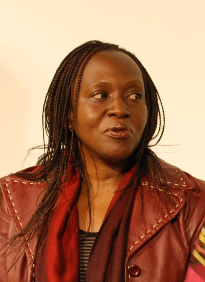 Ugandian writer Doreen Baingana at the Göteborg Book Fair 2010